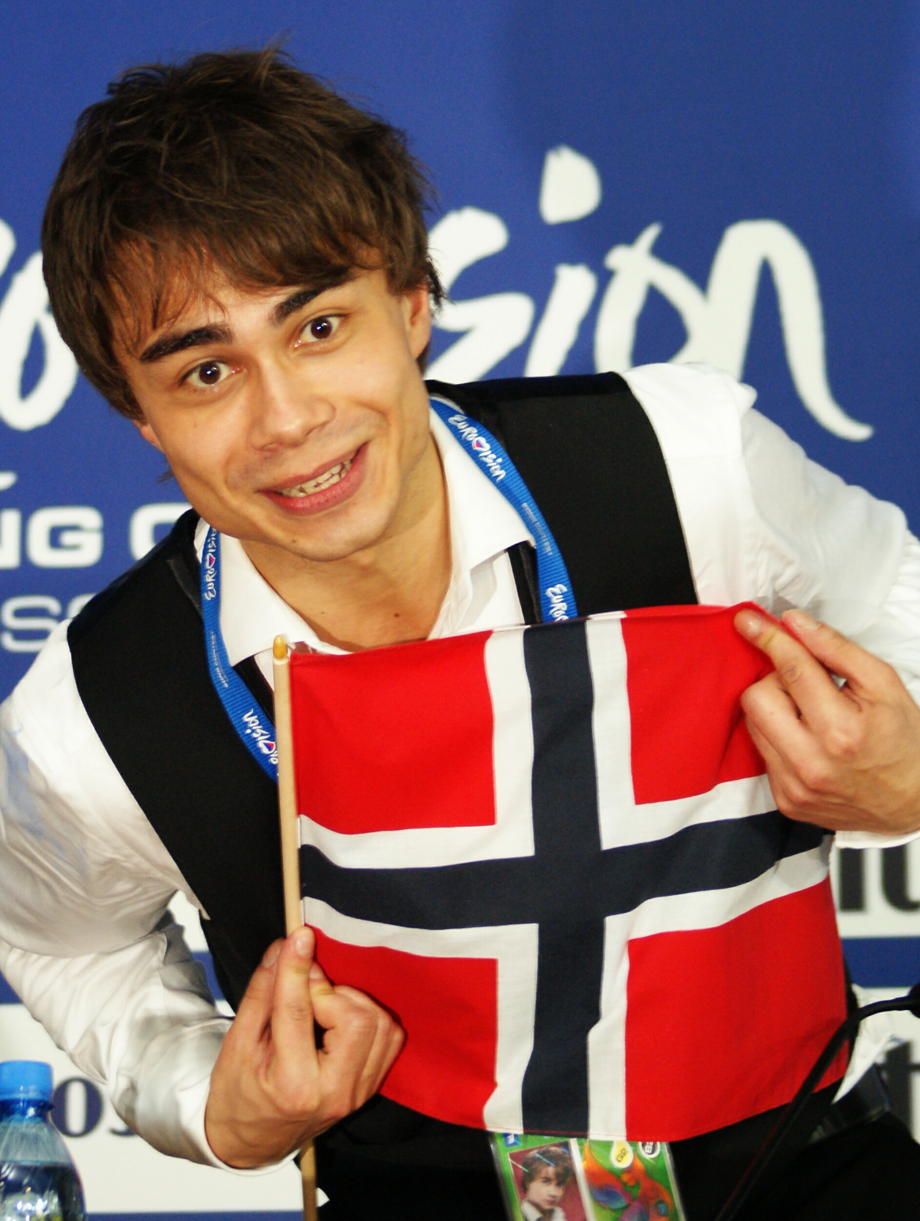 Alexander Rybak at the Eurovision press conference in Moscow, Russia.